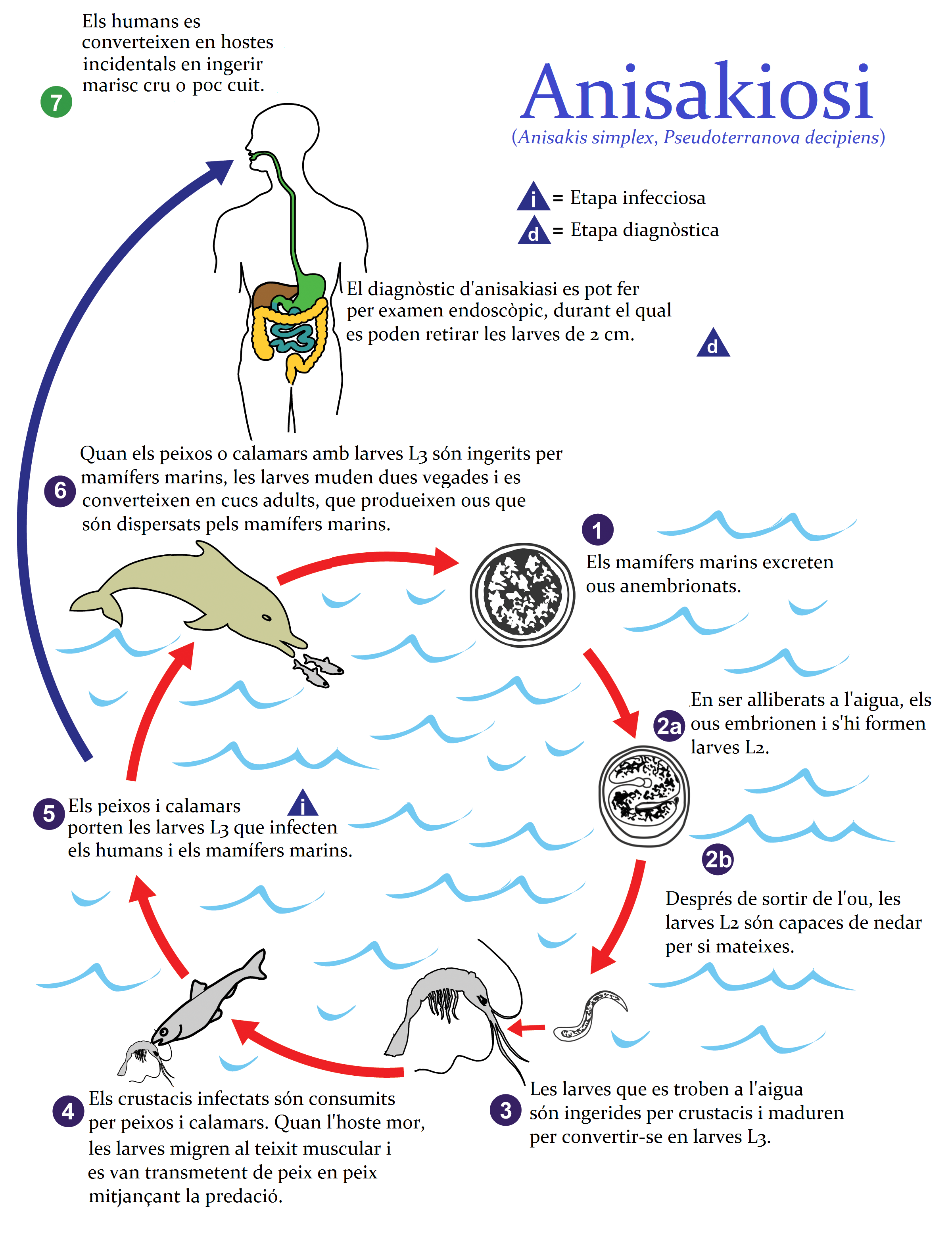 Derivative work of file:Anisakiasis 01.png. Translated into Catalan.